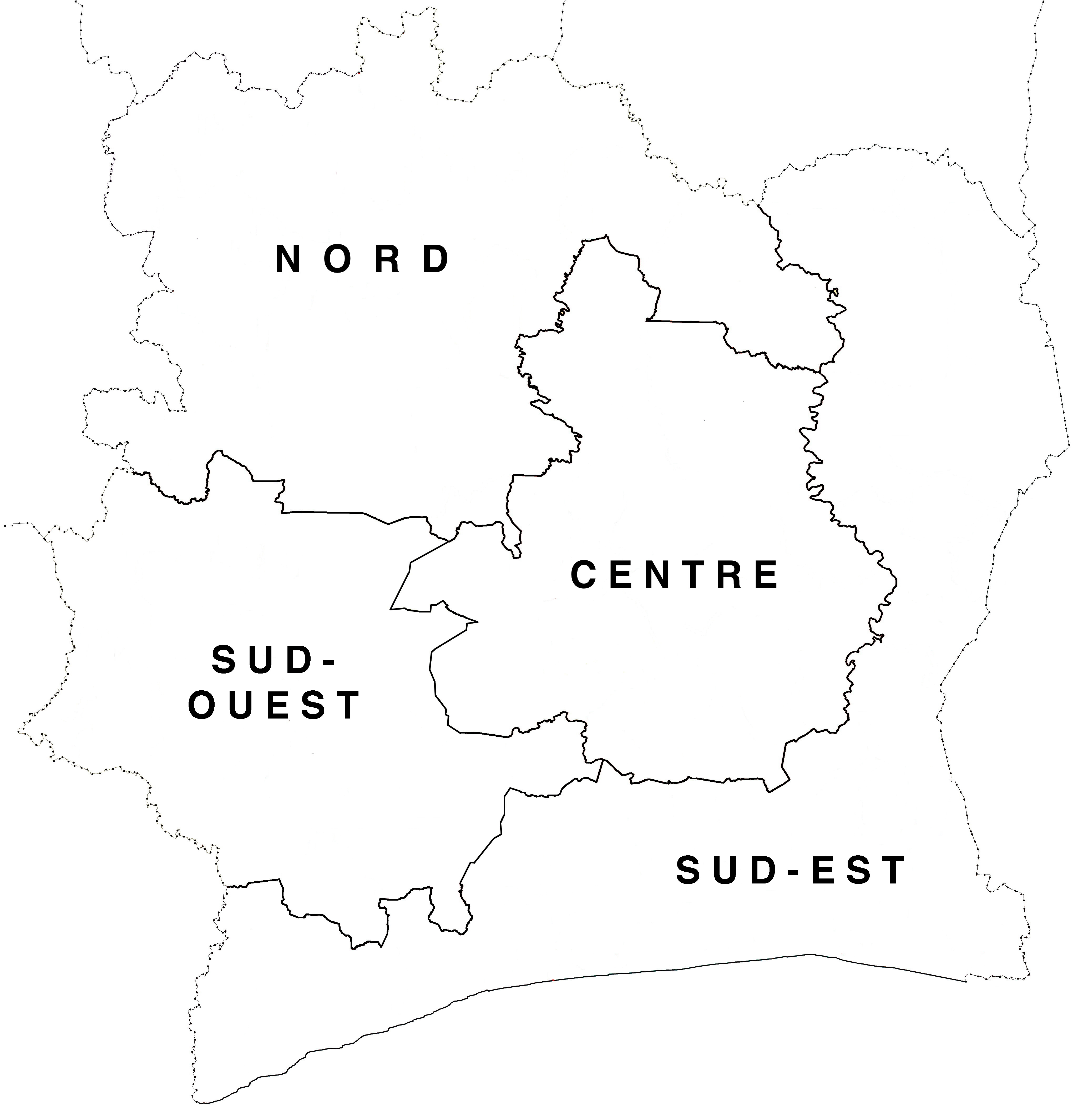 Labelled map of the departments of Côte d'Ivoire (1961–63).